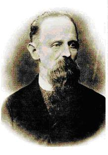 Pellegrino de Strobel, italian naturalist and palaeoethnologist (1821-1895).